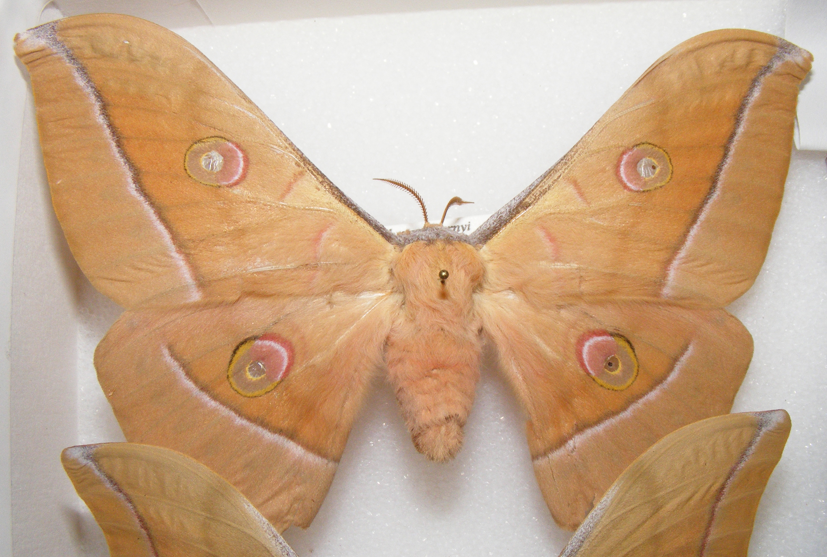 Antheraea yamamai adult female from the Texas A&M University Insect Collection